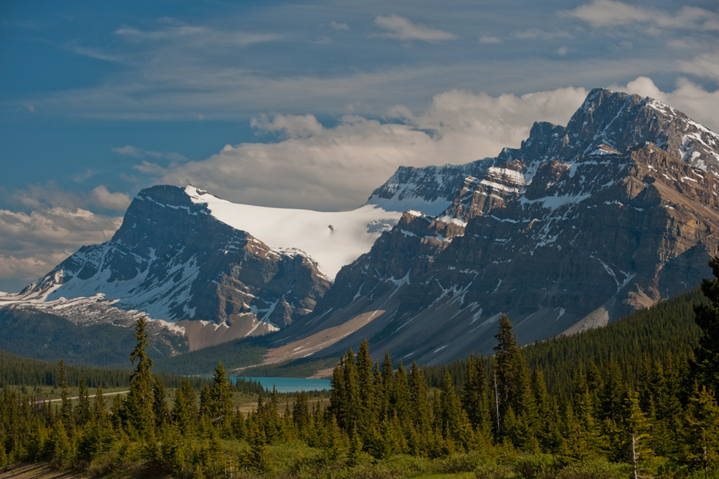 Crowfoot Glacier and Crowfoot Mountain, plus Bow Lake. Crowfoot Glacier once resembled a crow's foot, with three tongues of glacial ice sticking out through rock buttresses.